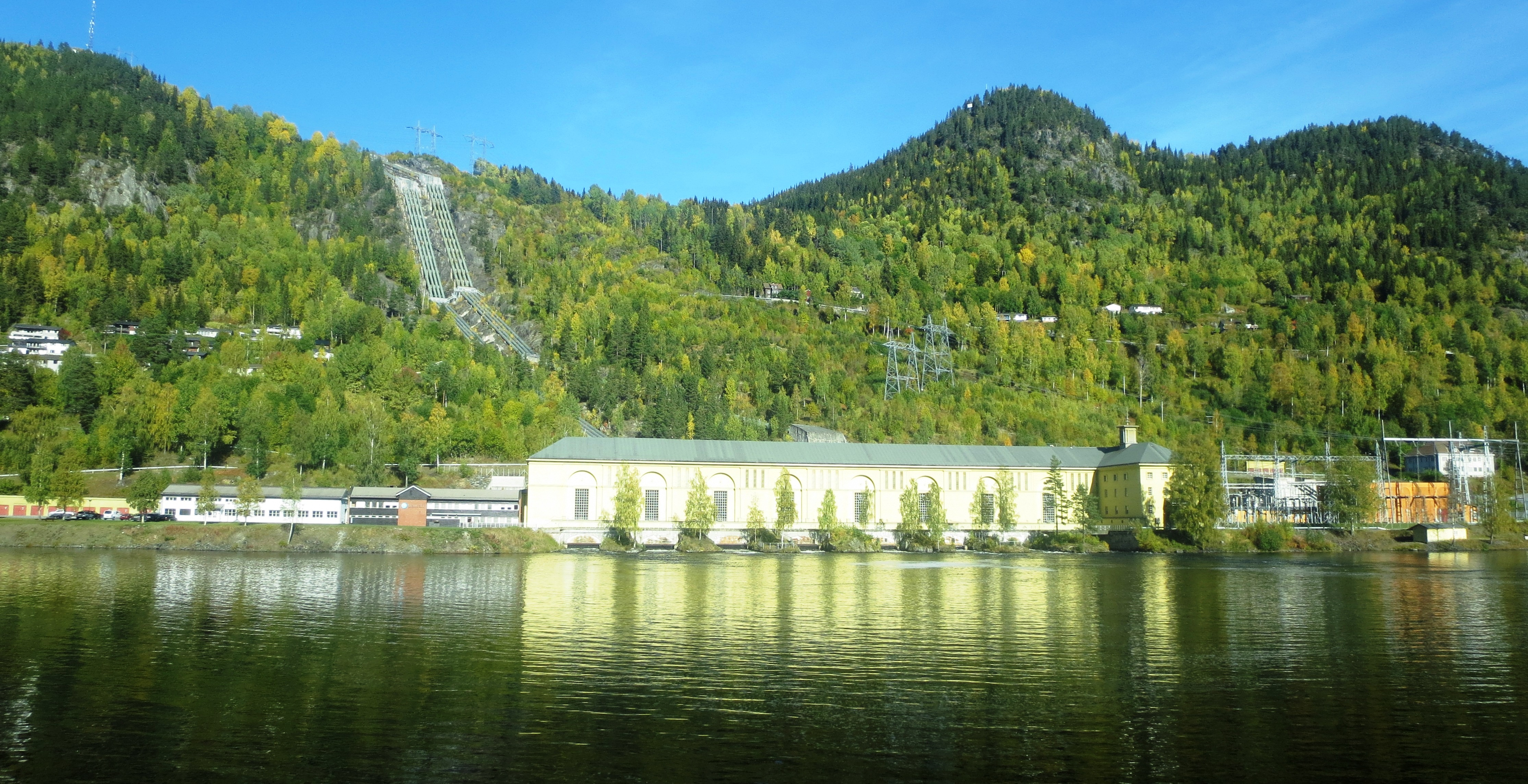 Nore Kraftverk (Nore Hydroelectric Power Station) Number I was built in 1921, and the first Power plant in Numedalen valley, Buskerud, Norway